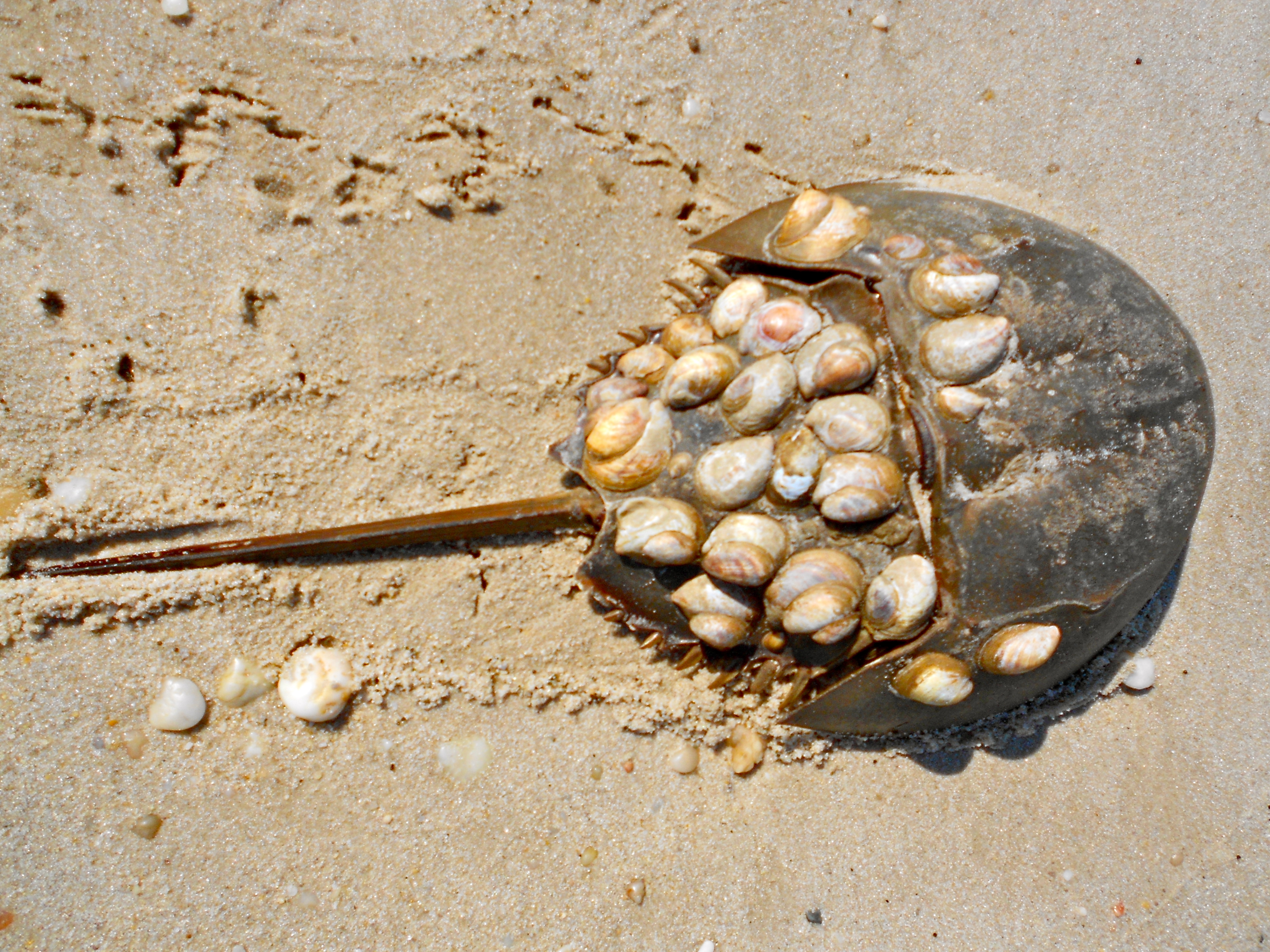 Horseshoe crab with slipper shells (Crepidula) attached to its shell. Photo taken near Villas, New Jersey, on Delaware Bay. Crab was apparently dead when the photo was taken, but the tracks in the sand seem pretty fresh.